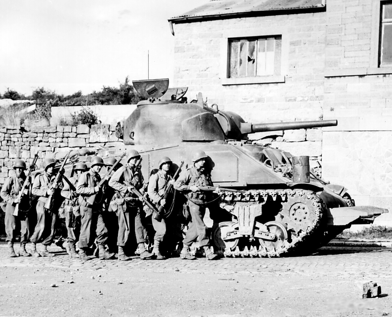 Yanks of 60th Infantry Regiment advance into a Belgian town under the protection of a heavy M4 Sherman tank.